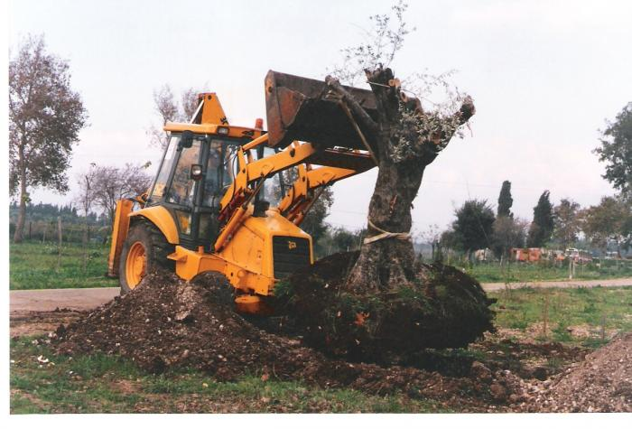 relocating 60 year old olive trees to The Peace Avenue, on the road to Hilla, uprooting stage, Notes: (2147_2)